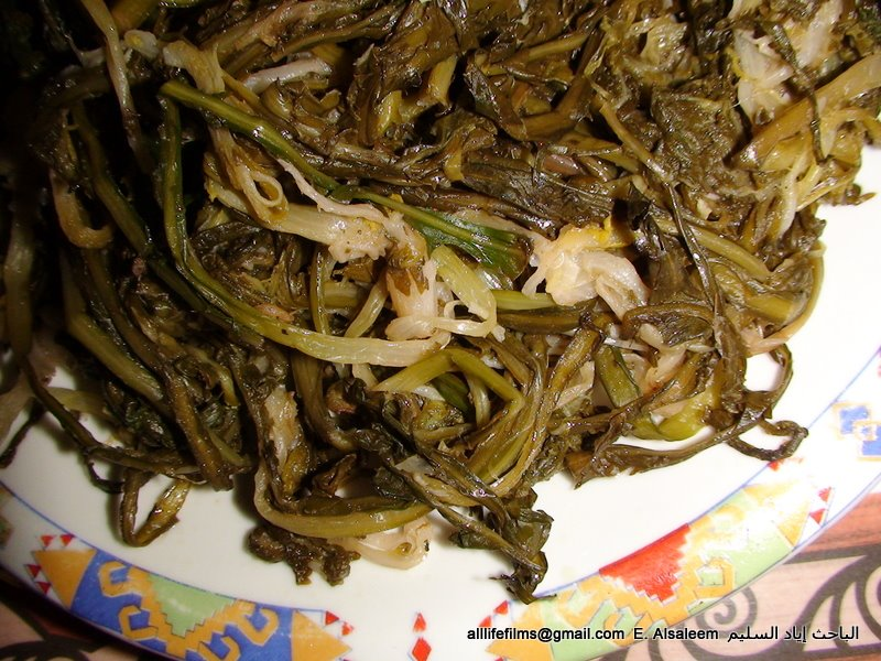 نباتات برية سورية تؤكل